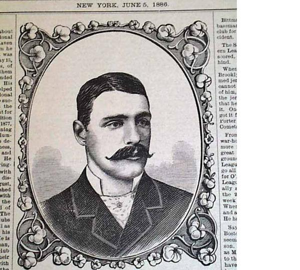 Article and sketch of Fred Goldsmith (aka. F. E. Goldsmith and Goldie) from The Official Baseball Record June 5, 1886.